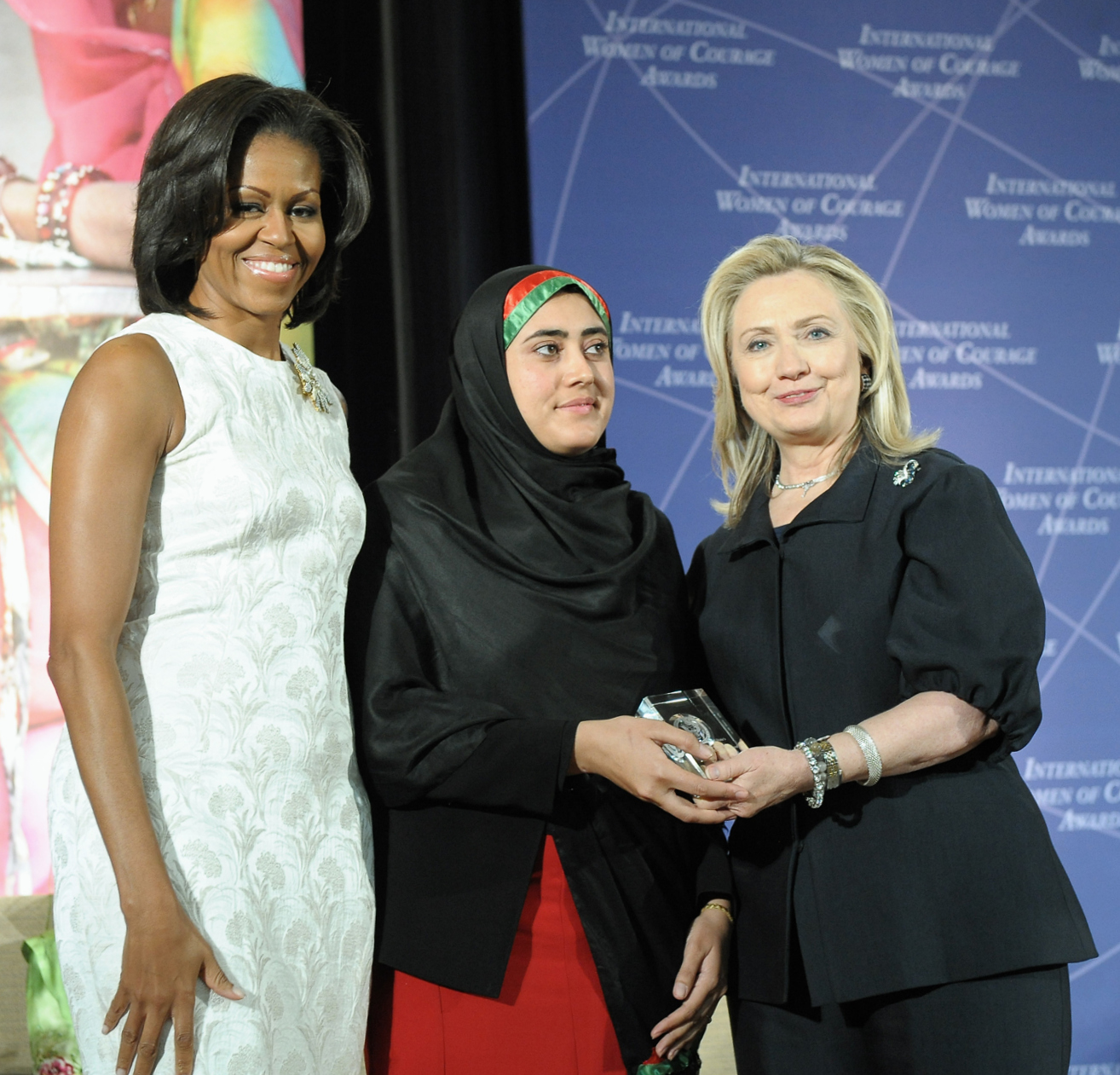 U.S. Secretary of State Hillary Rodham Clinton, right; and First Lady Michelle Obama, left; pose for a photo with 2012 International Women of Courage (IWOC) Award Winner Maryam Durani of Afghanistan, at the U.S. Department of State in Washington, D.C., on March 8, 2012. [State Department photo/ Public Domain]